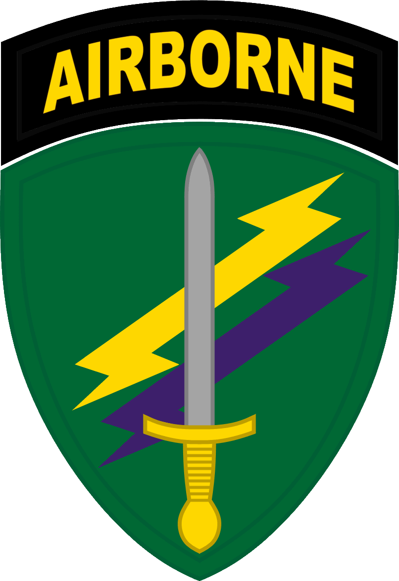 Shoulder sleeve insignia of the United States Civil Affairs & Psychological Operations Command